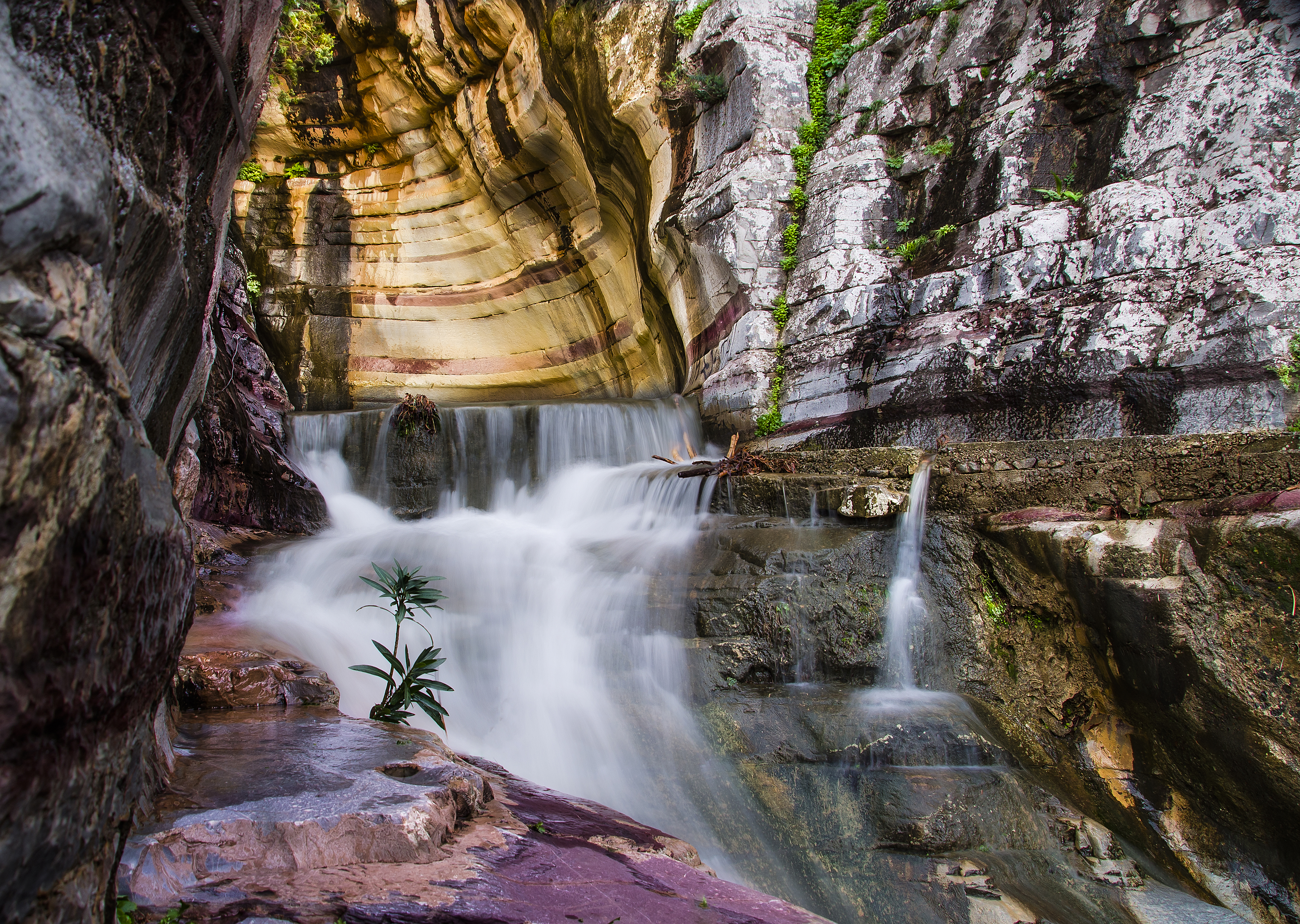 At the exit of Ha Gorge, Crete. This is a photography of Natura 2000 protected area with ID GR4320005